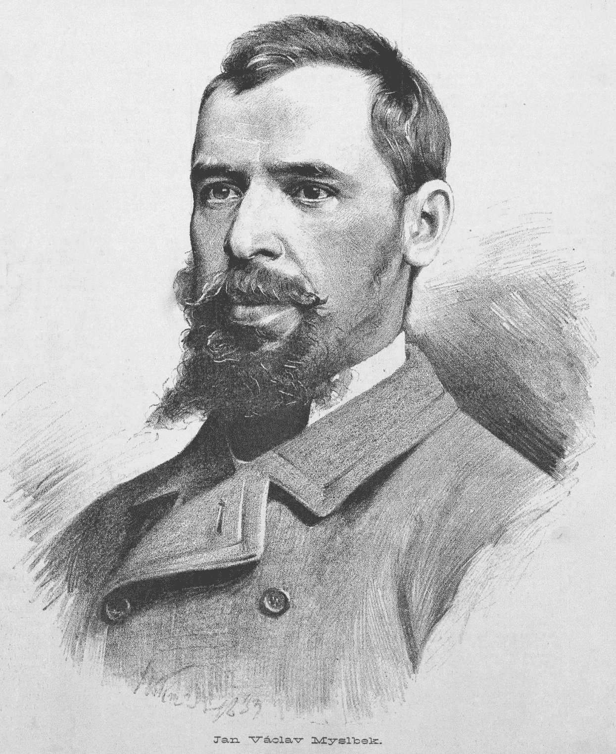 Portrait of Josef Václav Myslbek (under the picture, he is incorrectly referred to as "Jan Václav Myslbek"), Czech sculptor.